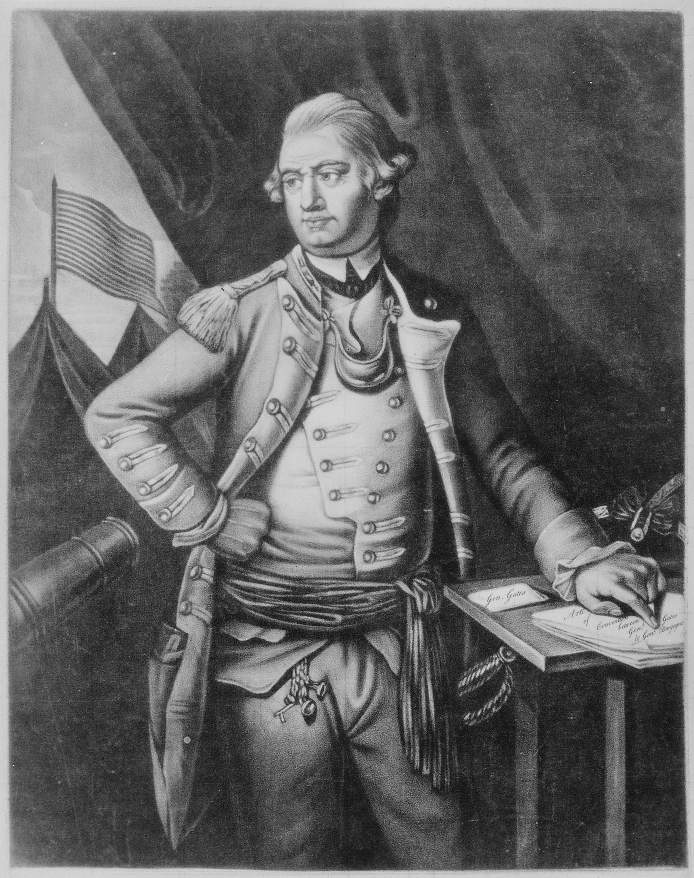 General notes: Mezzotint. Published by John Morris, London